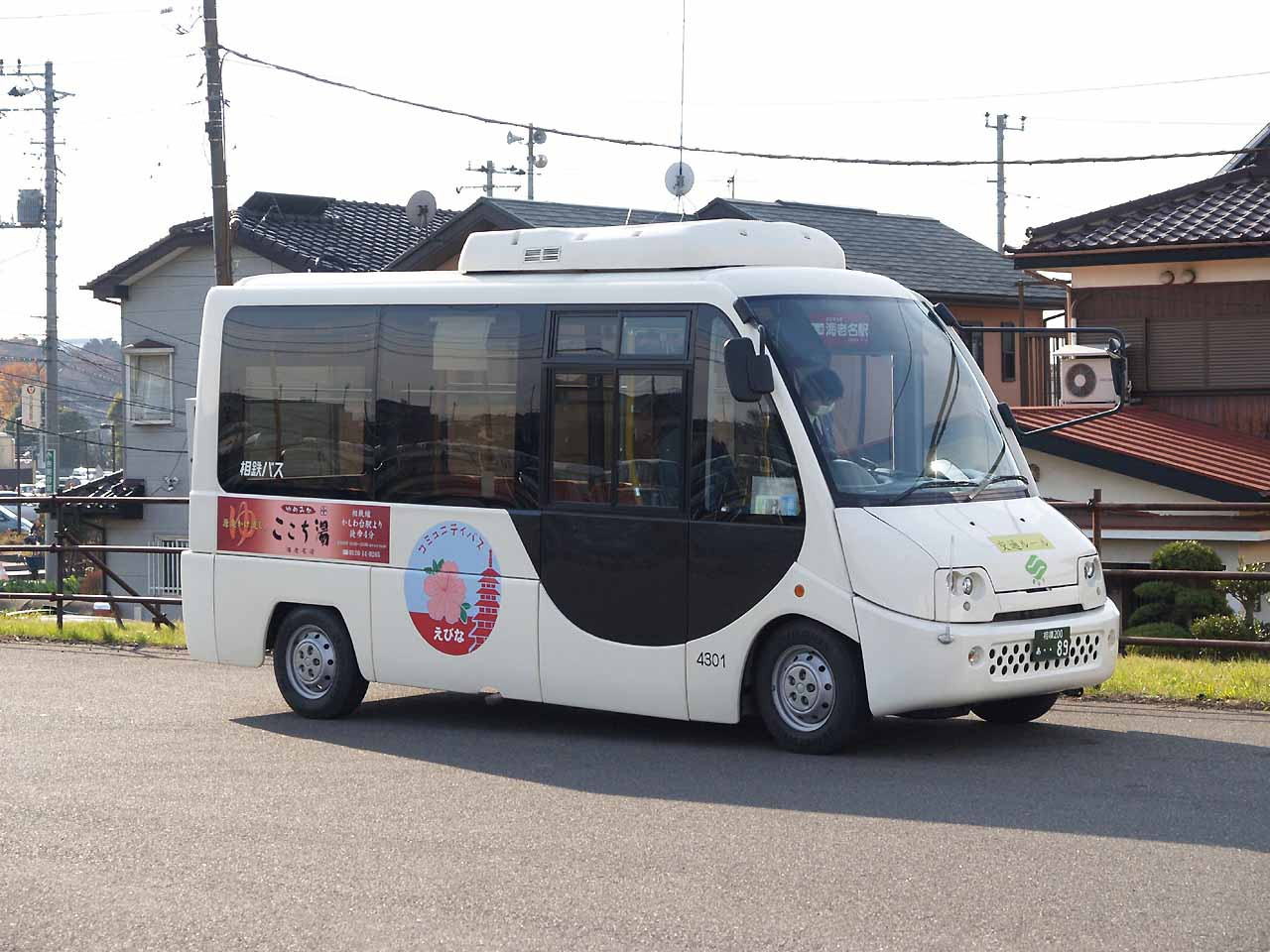 Fleet of Sotetsu Bus, the 1st car of community route bus in Ebina city. Model: Hino Poncho License plate: KNS200 A--89 Base: Ayase Dept. Place: Kashiwadai station, Ebina city, Kanagawa Japan